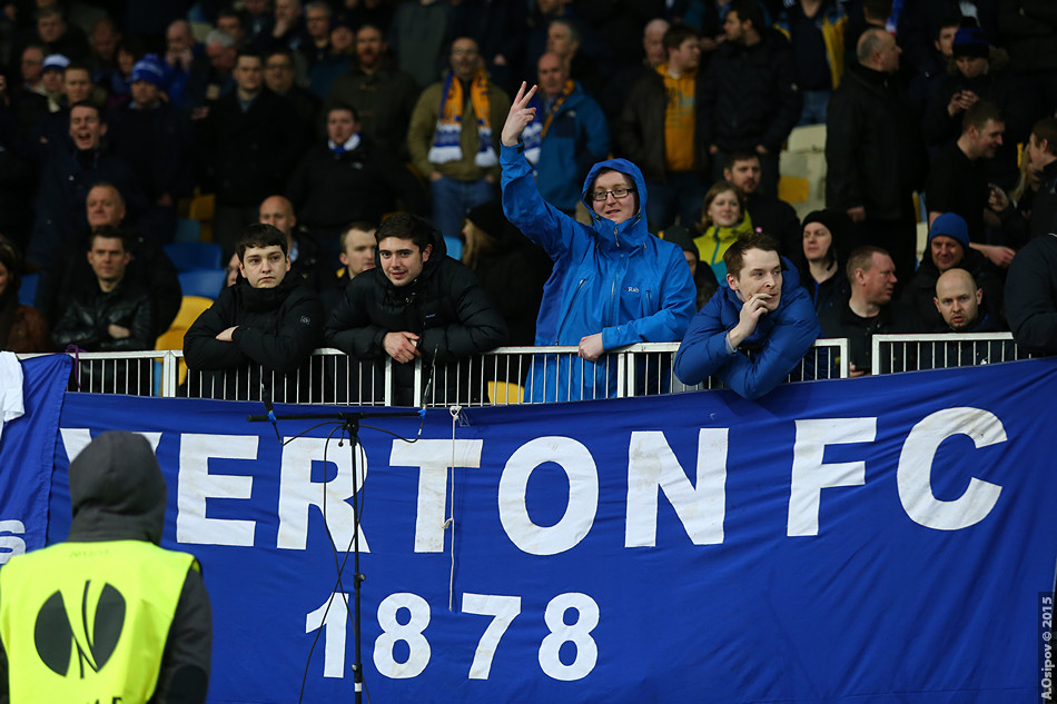 UEFA Europa League 2014-15 1/8 Final NSK Olimpiyskyi - Kyiv 19/03/2015 - 19:00CET (20:00 local time) Round of 16, Second leg Dynamo Kyiv - Everton - 5:2 Goals: Yarmolenko 21 Lukaku 29 Teodorczyk 35 Miguel Veloso 37 Gusev 56 Antunes 76 Jagielka 82 Aggregate: 6-4